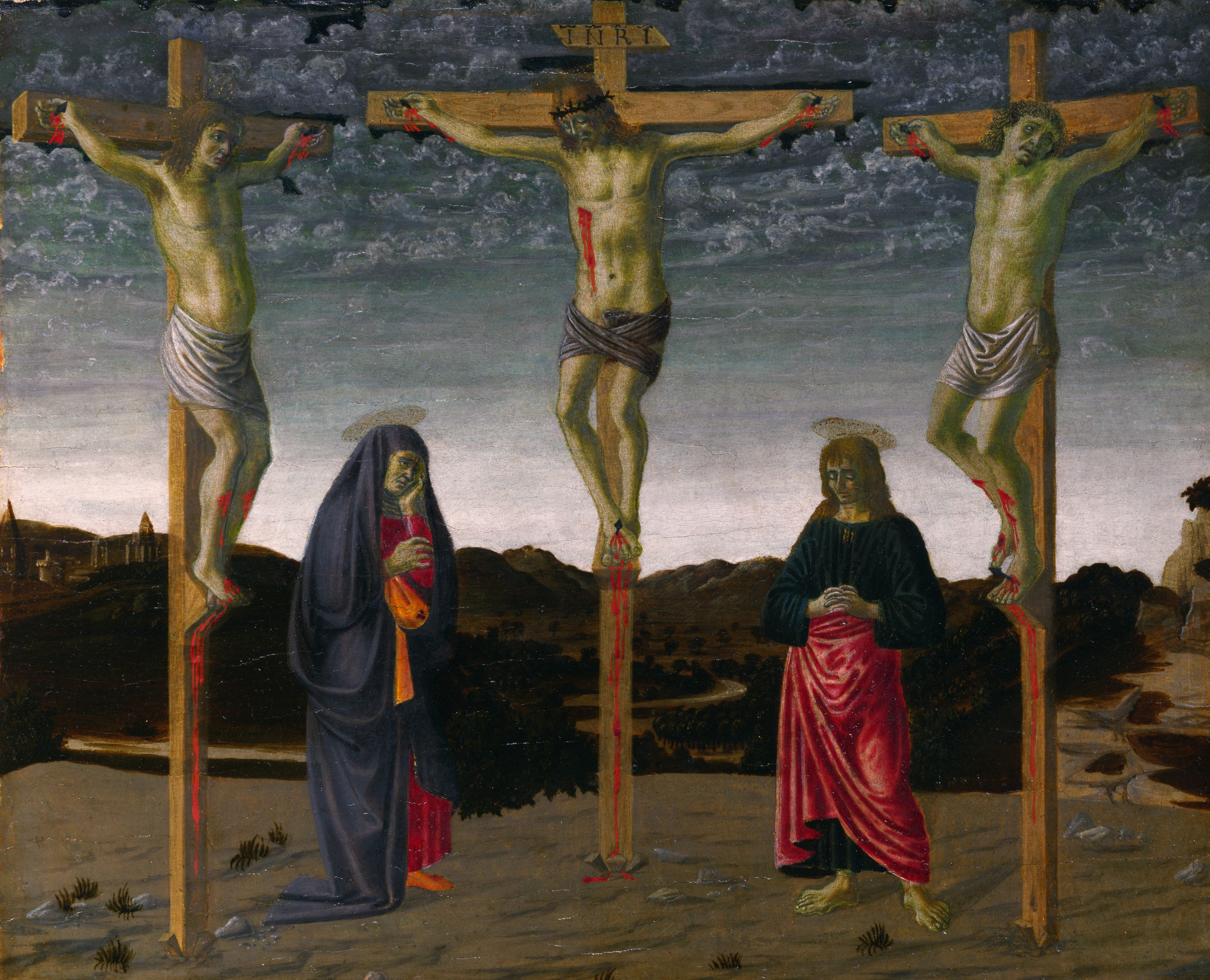 Francesco Botticini The Crucifixion c.1471 National Gallery London